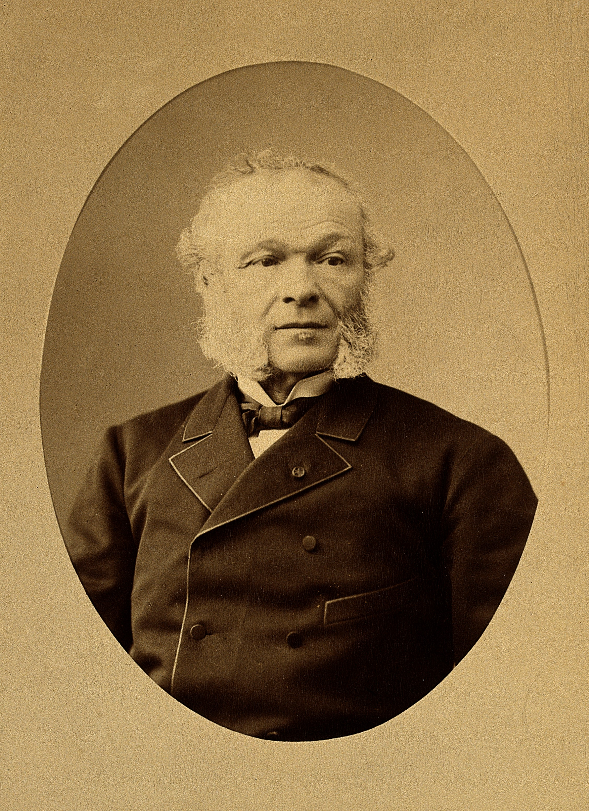 Charles Adolphe Wurtz. Photograph by Th. Truchelot & Valkman. Iconographic Collections Keywords: portrait photographs